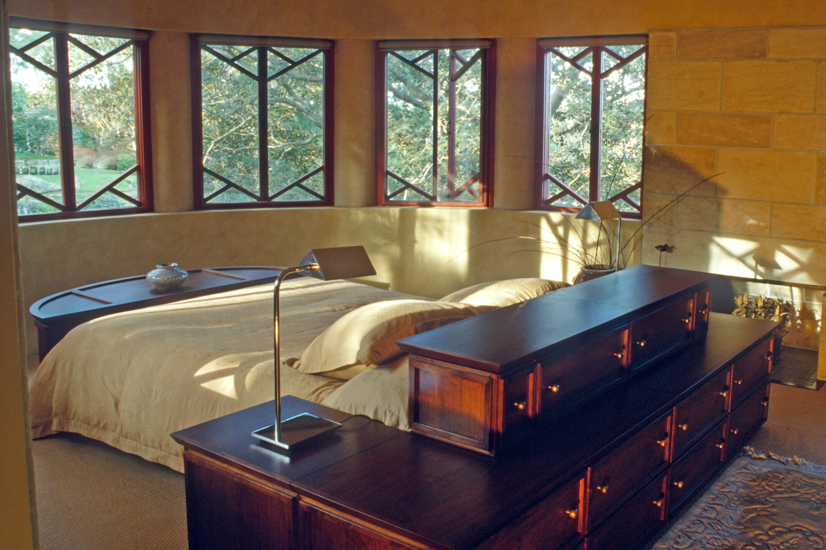 Off this bedroom is an ensuite bathroom, ultra-modern for its time, with a sunken end-on bath needing no shower curtain.